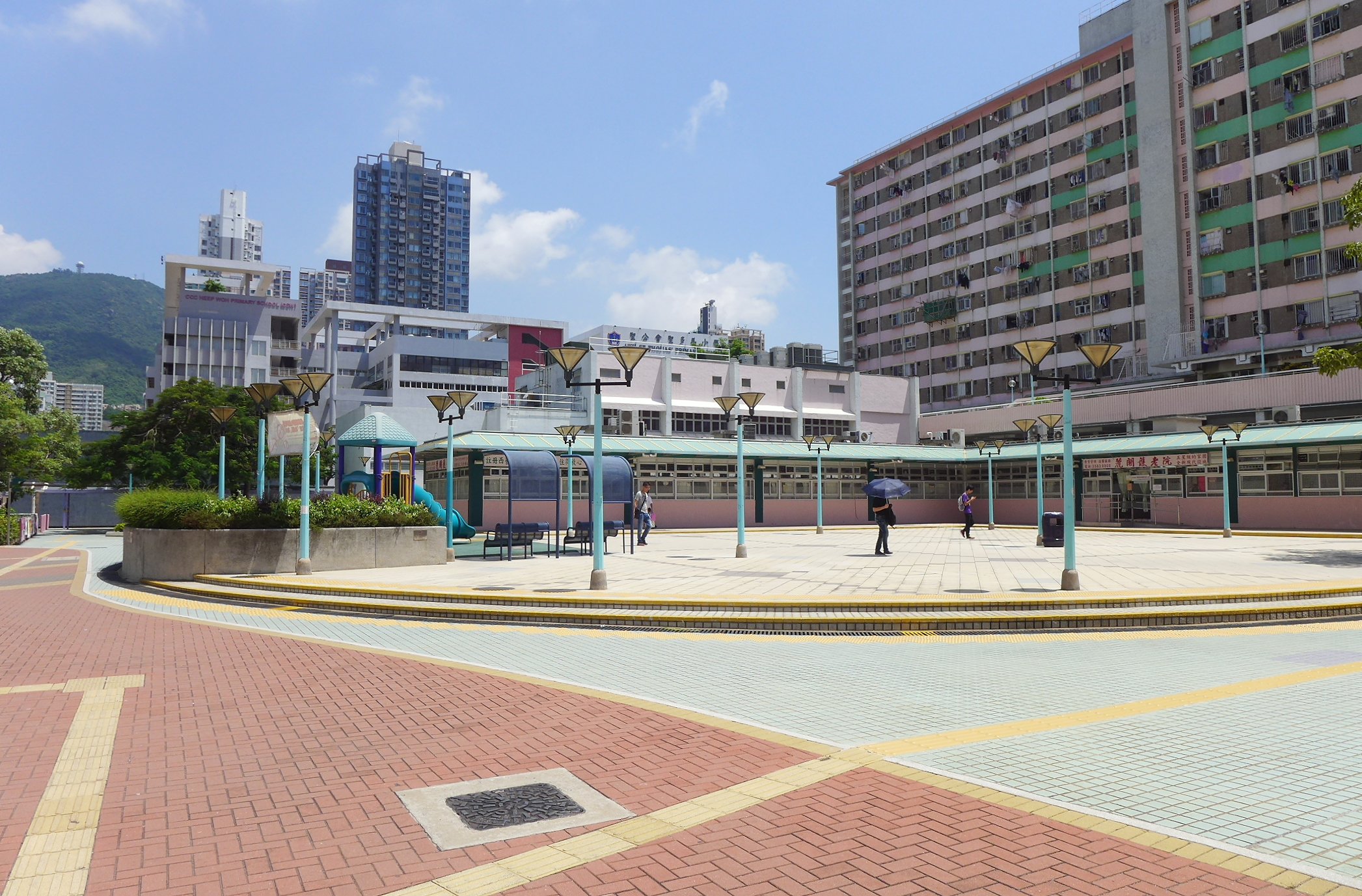 Lai Kok Estate Entry Plaza